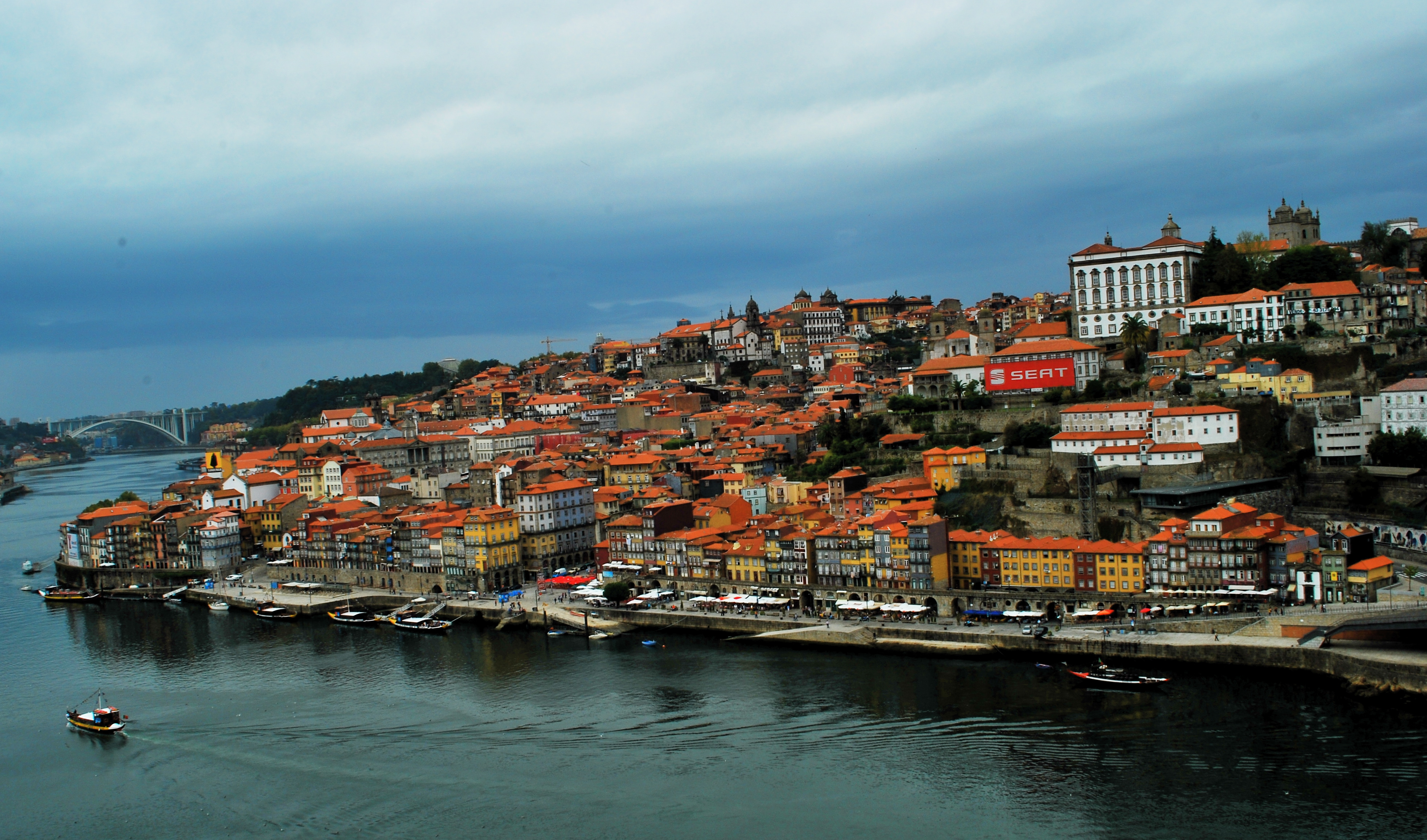 Portuguese wine center of Oporto along the Douro river.